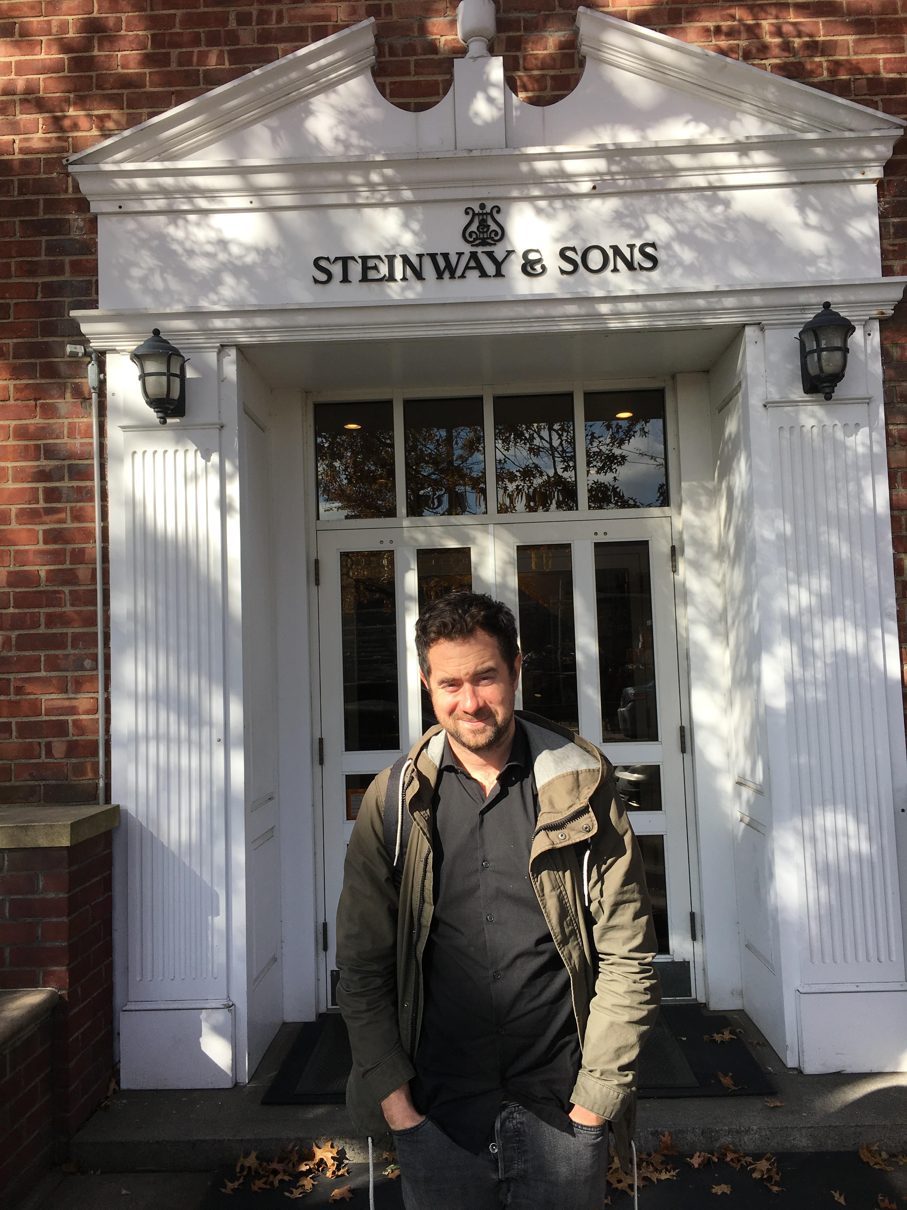 Jean-Michel Blais at the The Steinway & Sons Store in Queens, NY.